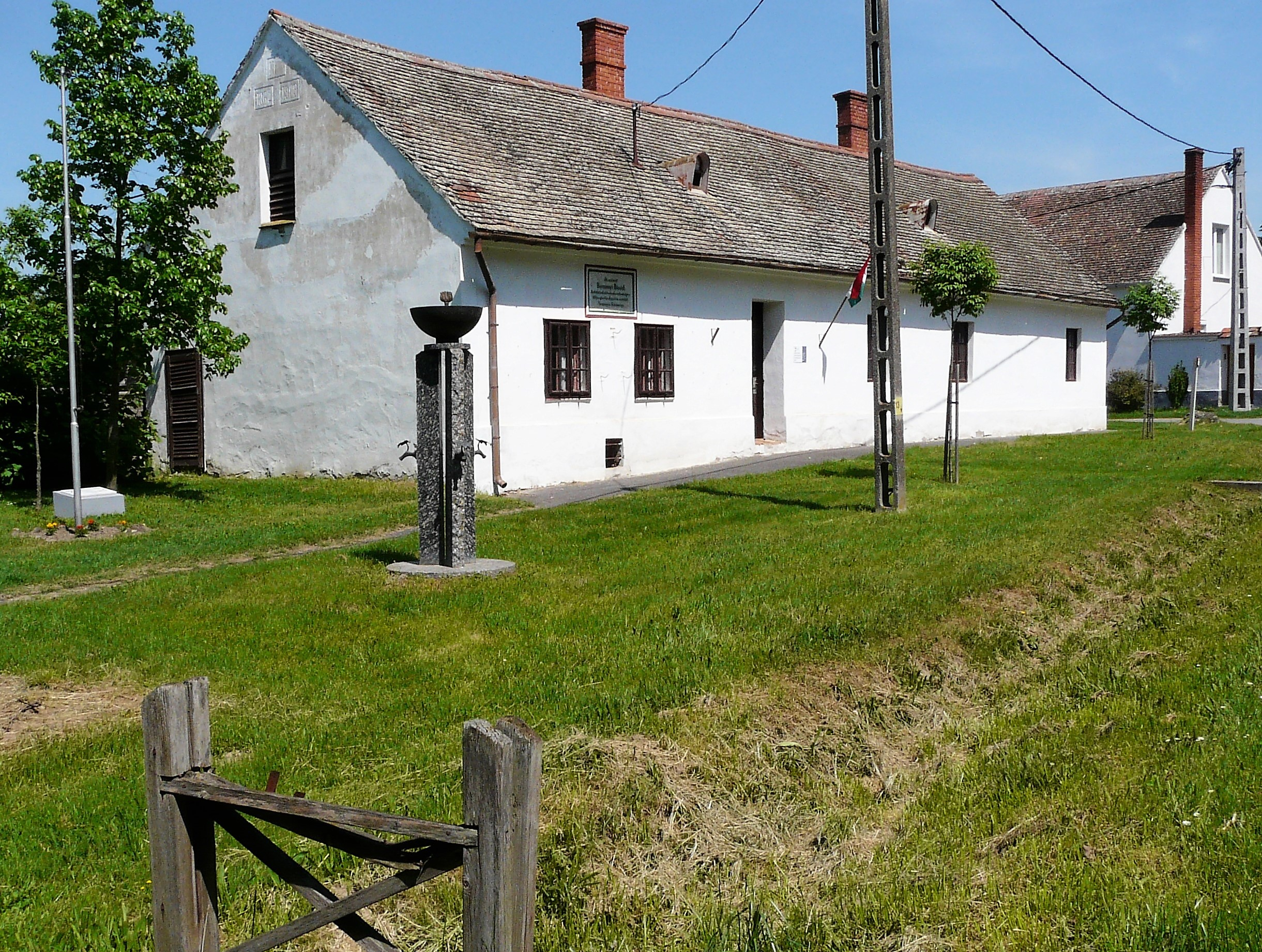 Memorial house of Hungarian poet Dániel Berzsenyi in Egyházashetye